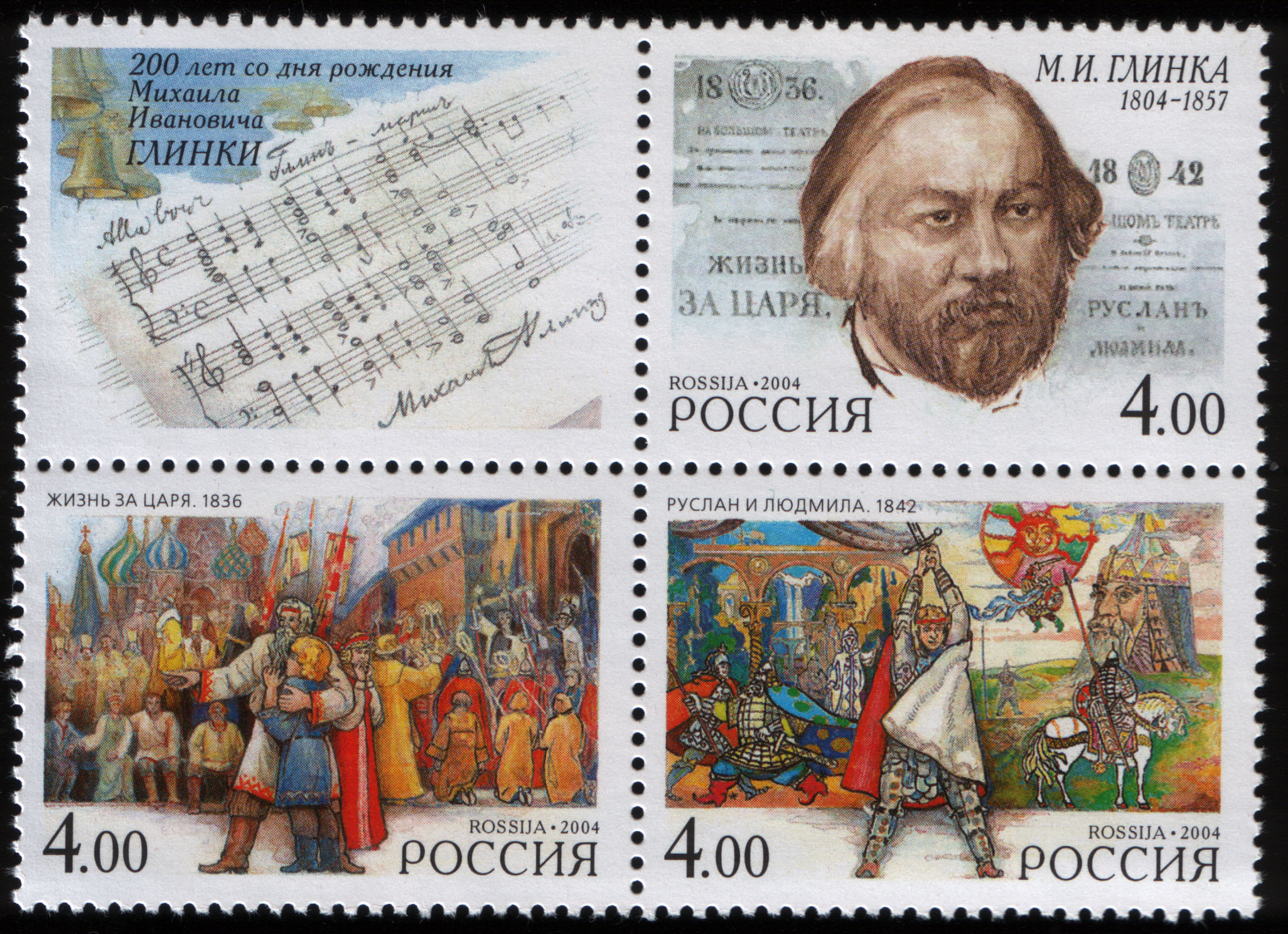 Stamps of Russia "Opera" (end of series). The 200 birth anniversary of M.I.Glinka (1804-1857) », 2004